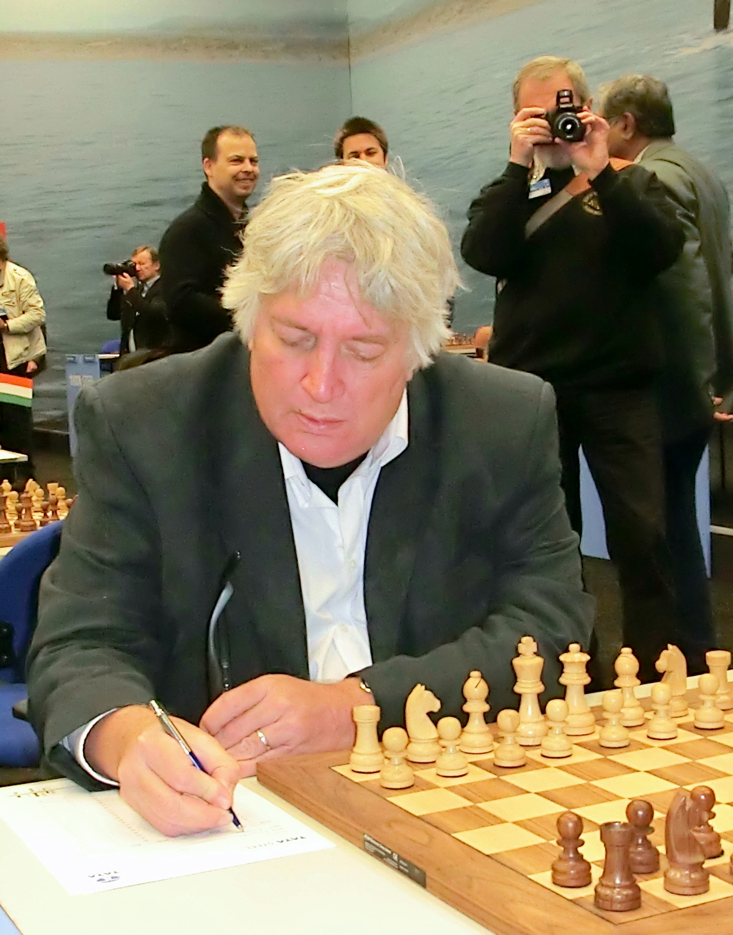 Jan Timman, chess grandmaster from the Netherlands